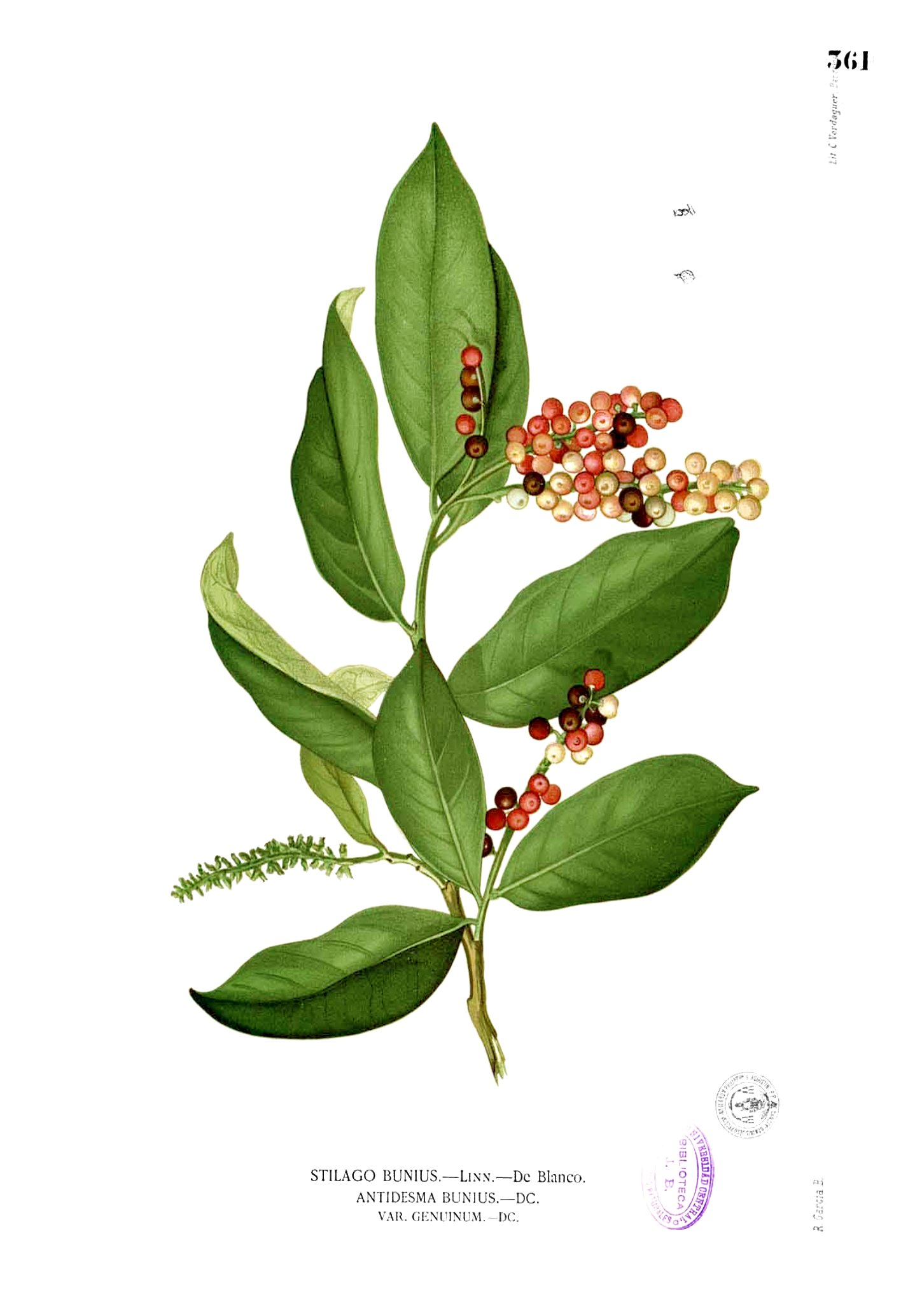 Plate from book